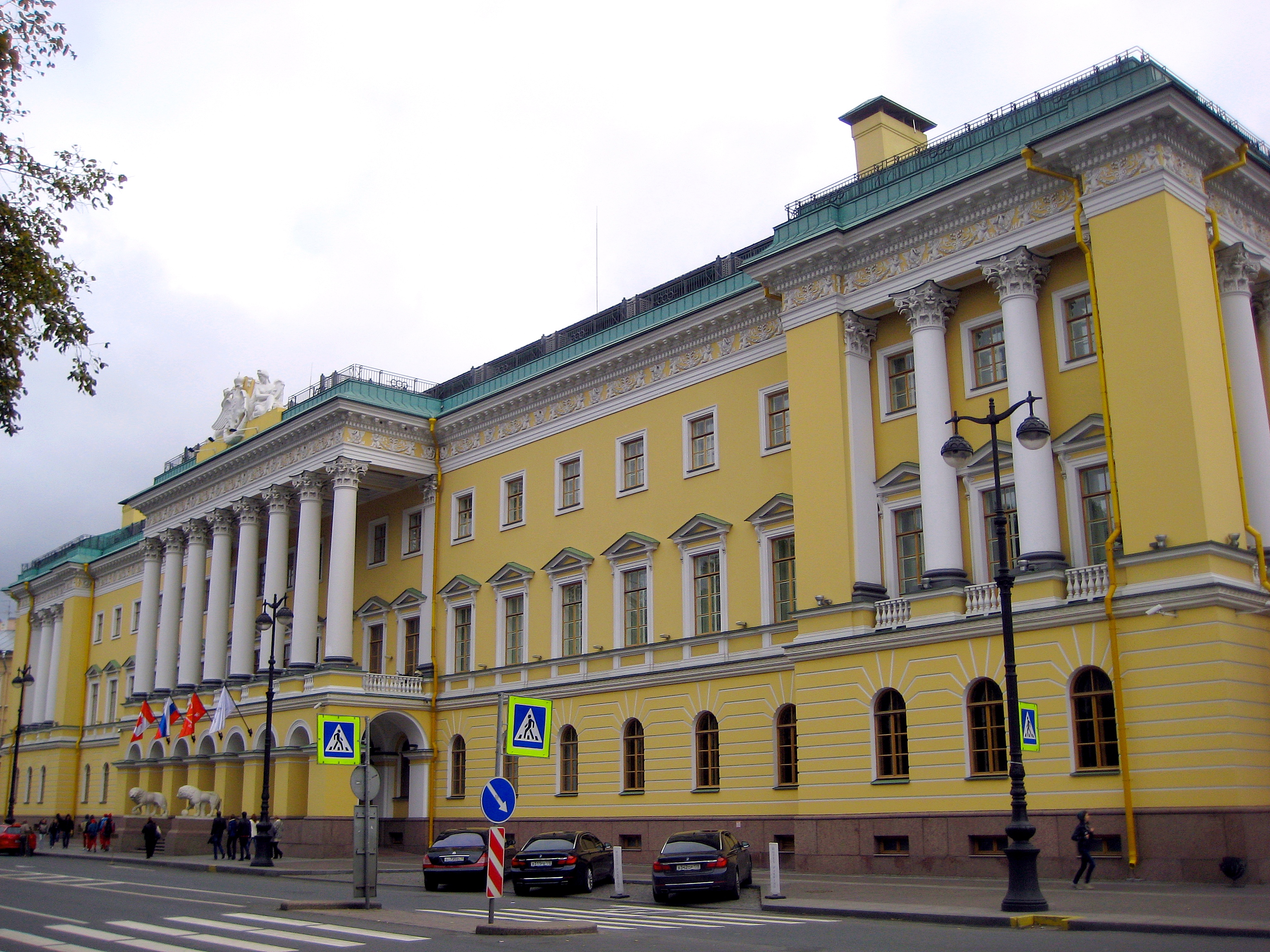 House A.Ya. Lobanov-Rostovsky: Admiralteysky Prospect, 12 / Isaakievskaya Square, 2 / Voznesensky Prospect, 1. Admiralteysky District, St. Petersburg